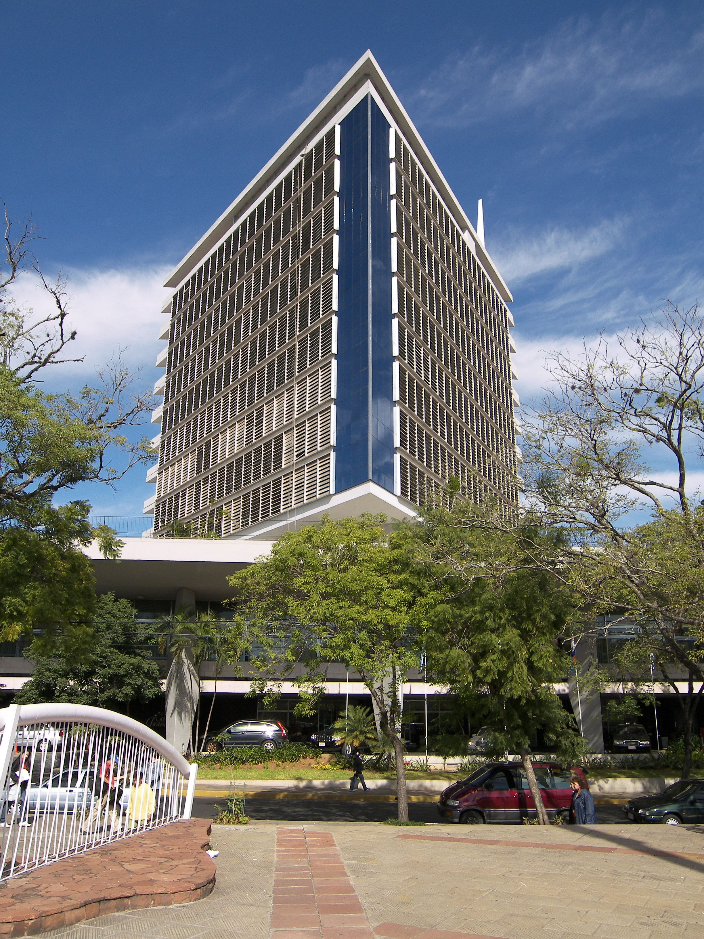 Hotel Guarani de Asunción